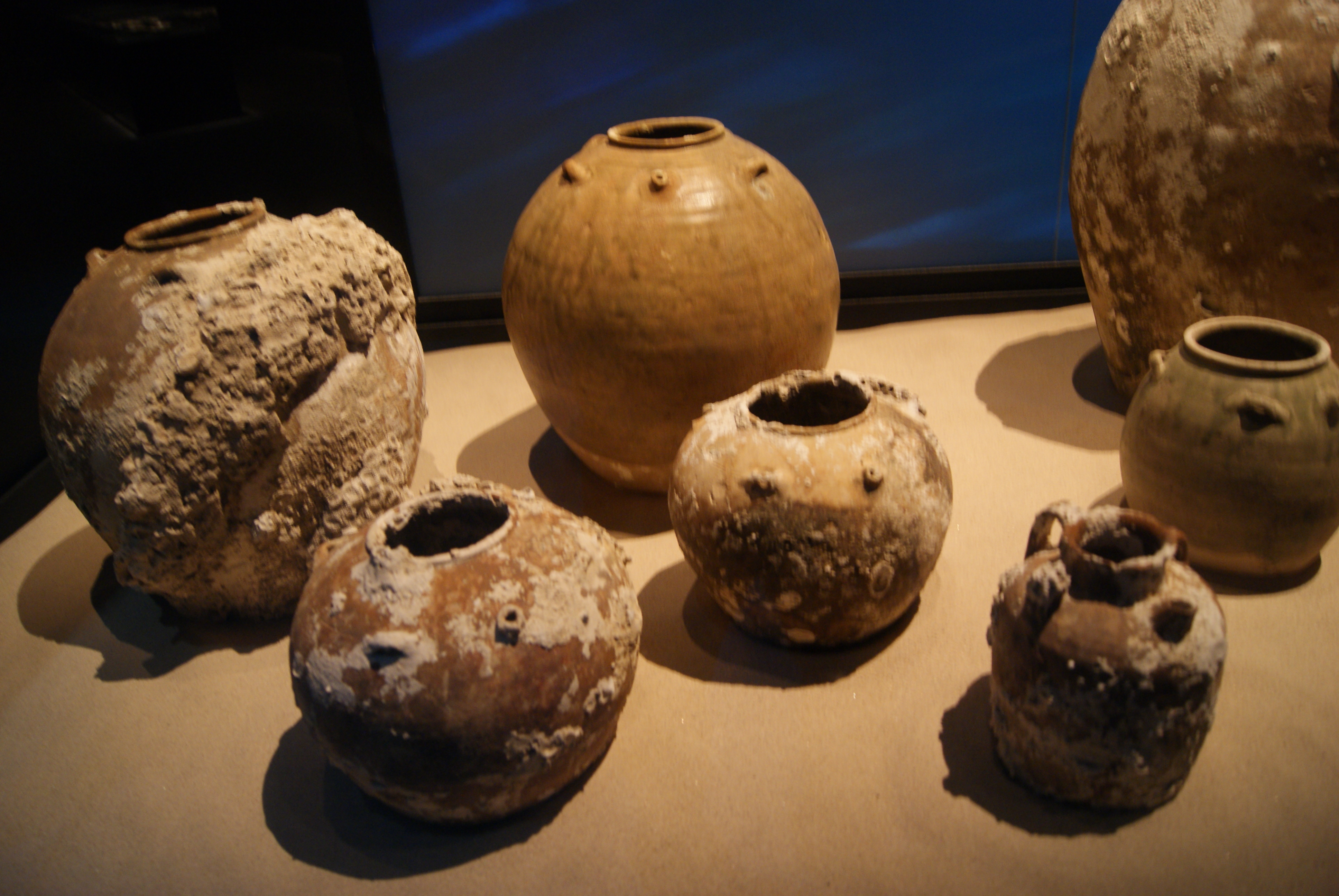 Part of the collection of artifacts from the Belitung shipwreck owned by the Sentosa Leisure Group and the Government of Singapore, photographed while displayed at an exhibition called Shipwrecked: Tang Treasures and Monsoon Winds at the ArtScience Museum, Marina Bay Sands, Singapore, from 19 February 2011 to 31 July 2011.